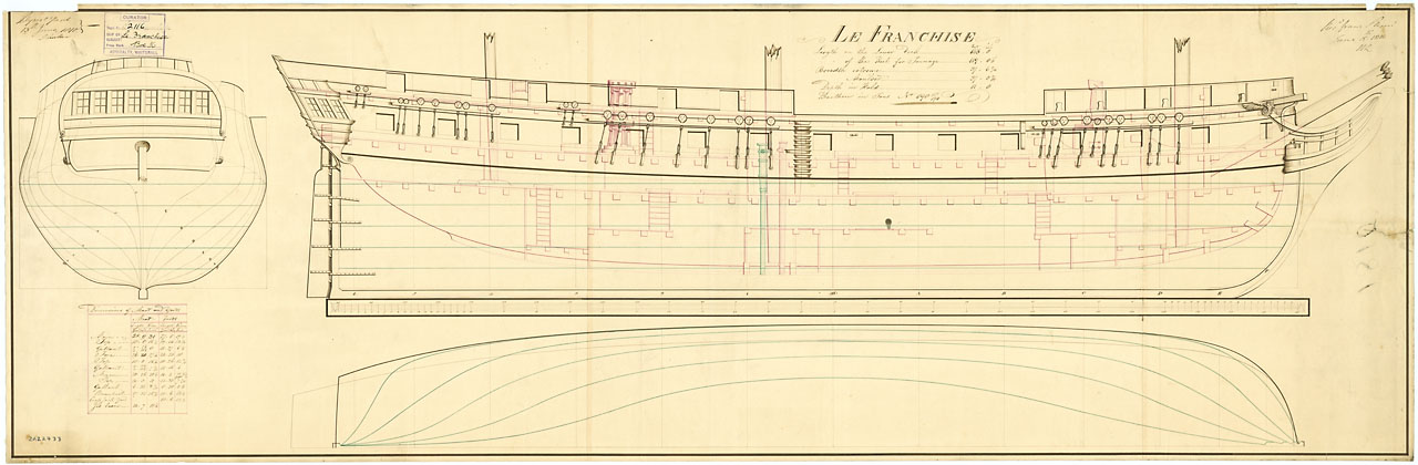 FRANCHISE FL.1803 [FRENCH] lines & profile